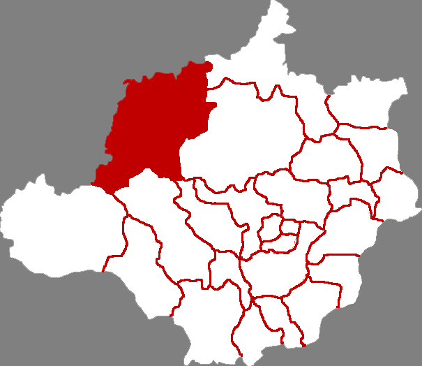 Location of Laiyuan county in Baoding City, China